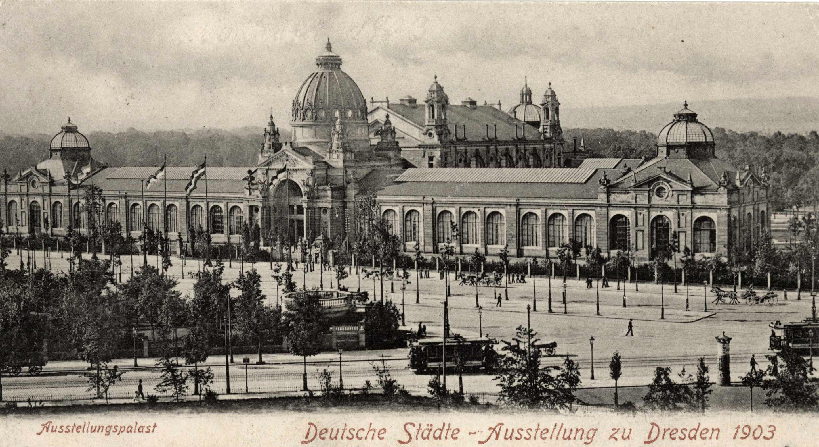 Exhibition Palace of Dresden (1903), publisher Wilhelm Baensch, Dresden